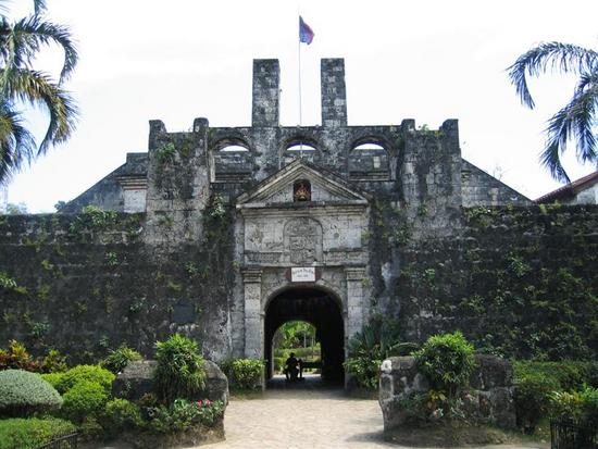 Fort San Pedro, a fort in Cebu City, The Philippines built in the Spanish colonial period